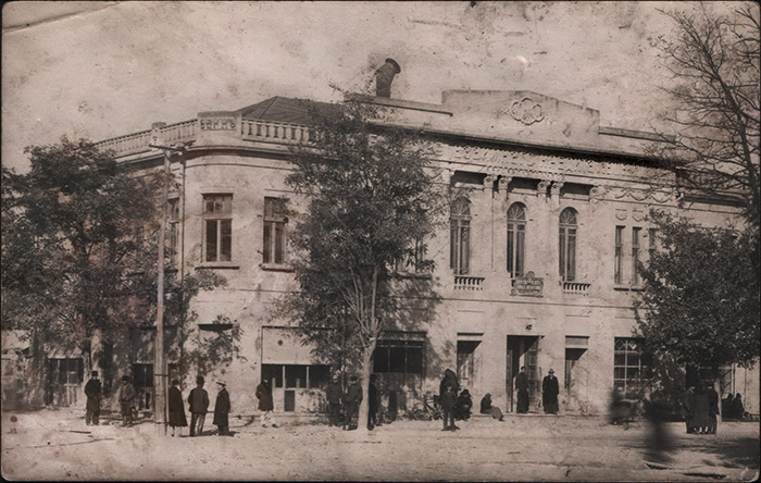 Здание банка Мануса, а также бывшей хоральной синагоги